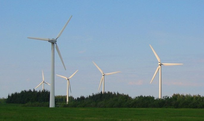 Wind turbines (Vendsyssel, Denmark)